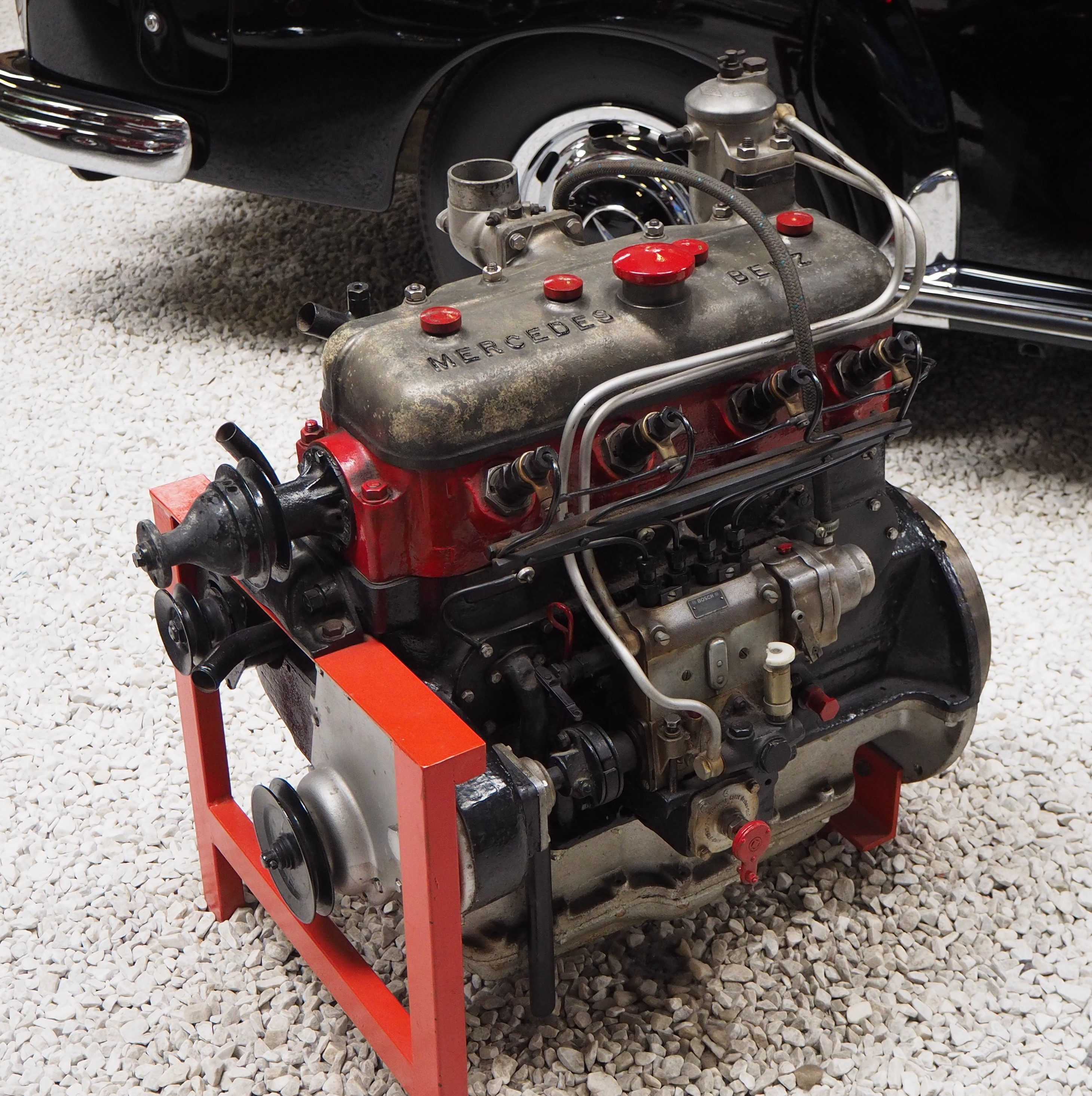 Mercedes-Benz OM138 engine